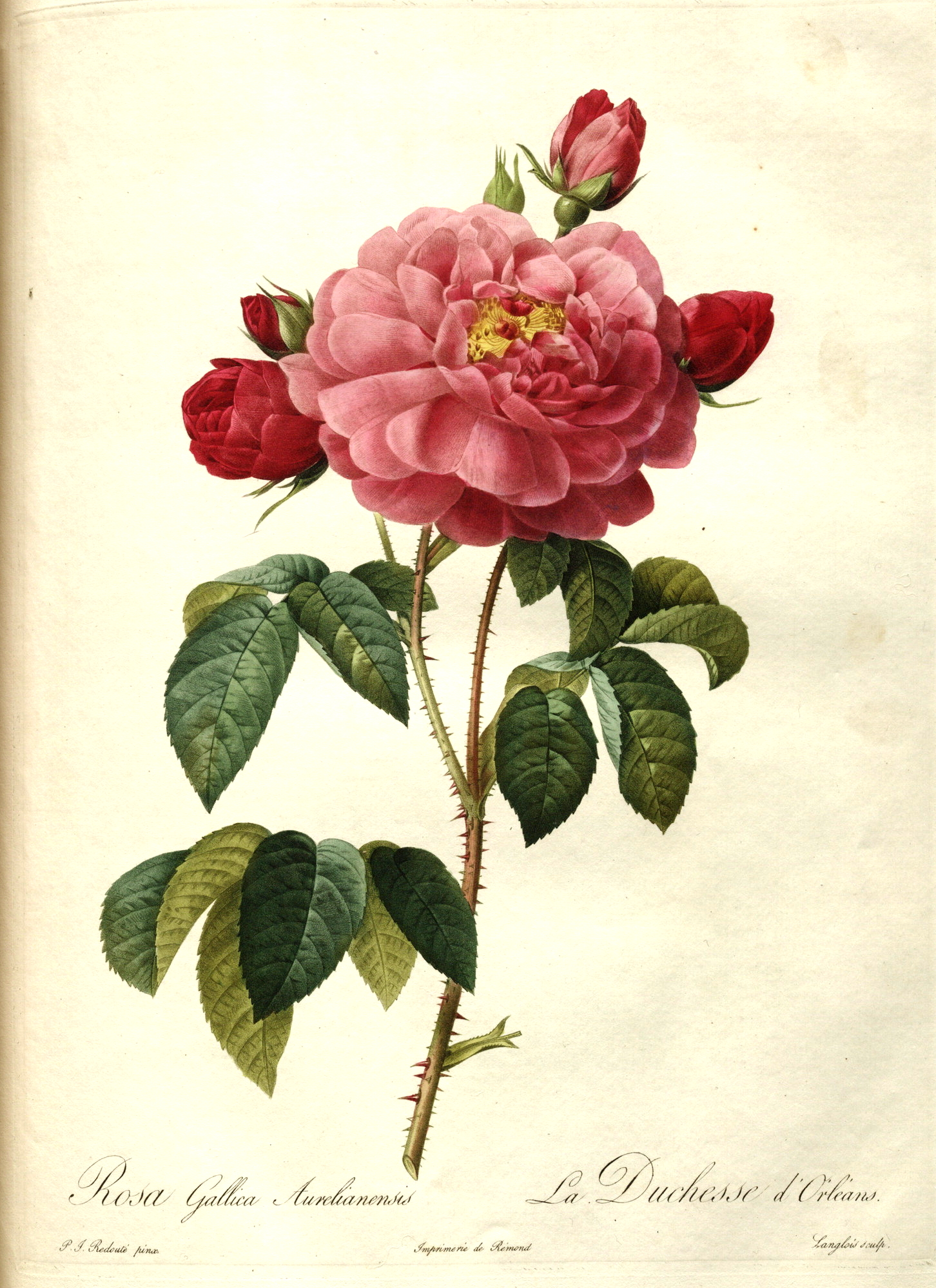 Rosa gallica aurelianensis (Rosa 'La Duchesse d'Orléans'), a painted engraving of a rose by Pierre-Joseph Redouté (1759–1840).